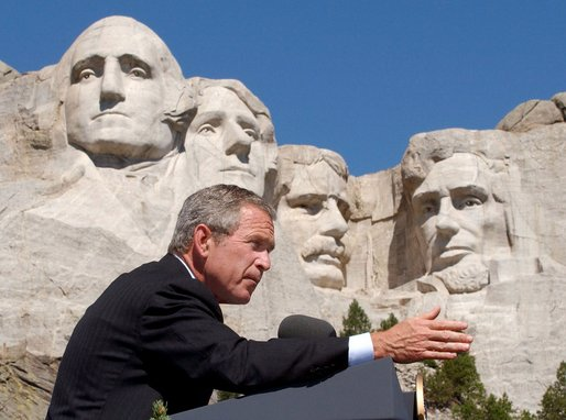 President George W. Bush discusses the security of America at Mount Rushmore in South Dakota Thursday, Aug. 15 "More and more people understand that being a patriot is more than just putting your hand over your heart and saying the Pledge of Allegiance to a nation under God. (Applause.) They're saying -- more and more people understand that serving something greater than yourself in life is a part of being a complete American," said the President in his remarks.